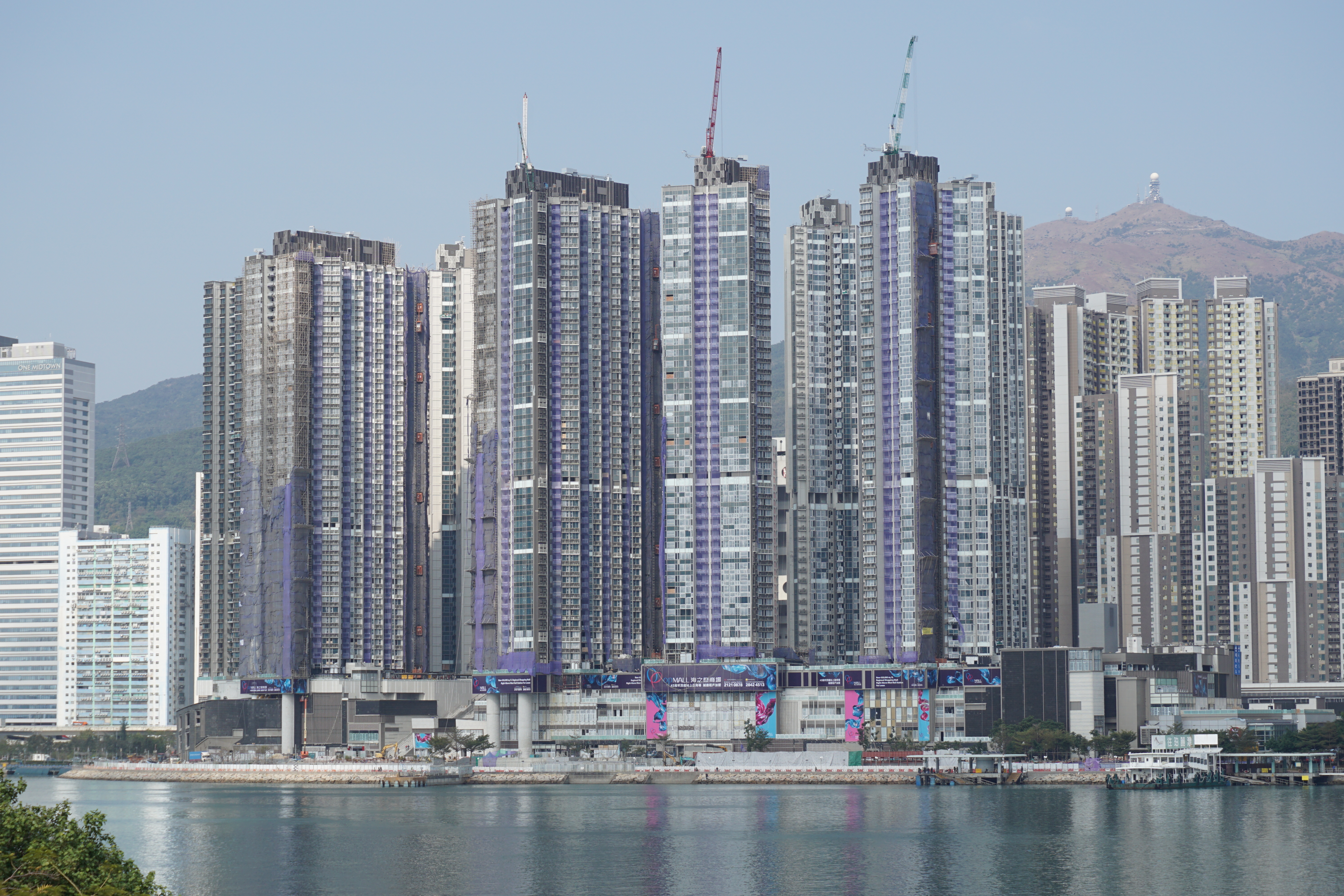 Ocean Pride in Tsuen Wan, Hong Kong.